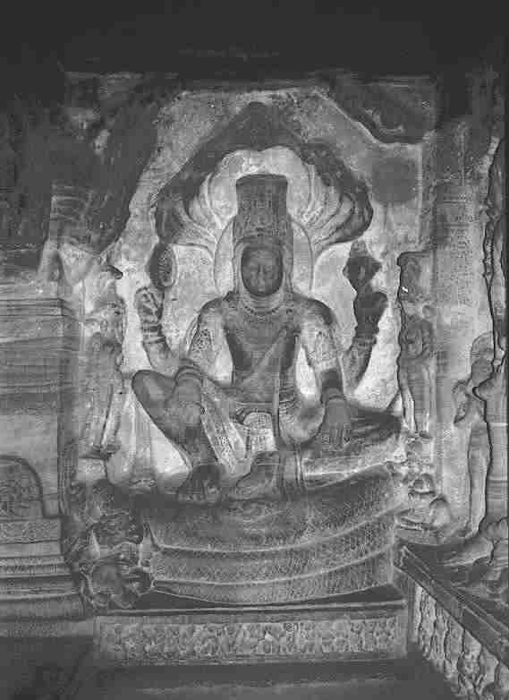 Narayana, Cave 3, Badami, Karnataka, India.